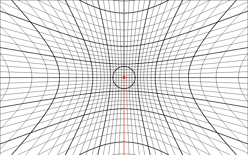 Greninger chart used for the analysis of Laue diffraction patterns in the backscattering geometry.